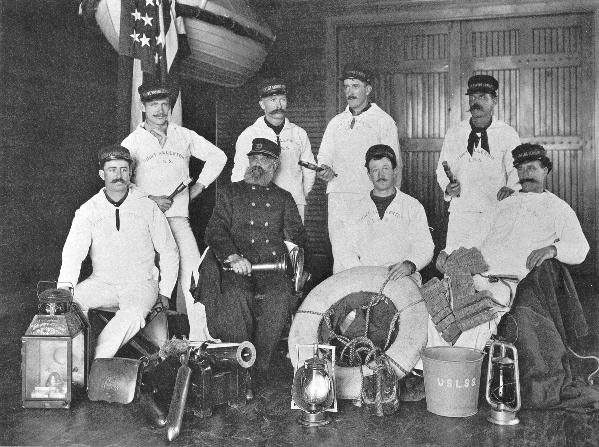 Capt. Joshua James (1826-1902) (dark uniform) and his crew of the United States Life-Saving Service, in Point Allerton, Massachusetts.